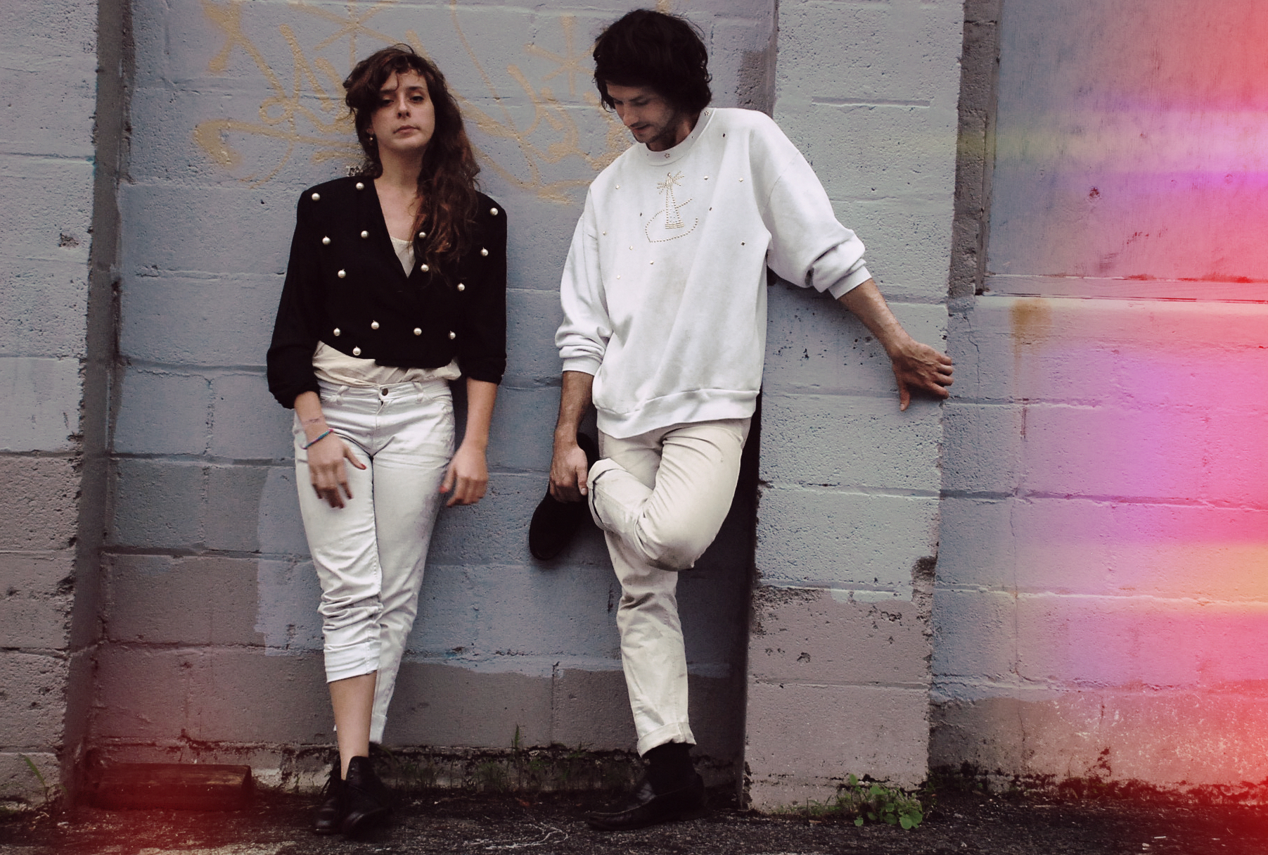 Alex Scally and Victoria Legrand of the dream pop/indie rock group Beach House.